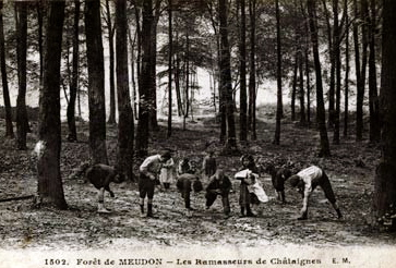 Scan of an old poscard with Title "Ramasseurs de châtaignes - Forêt de Meudon" Fin XIX ou début XXe siècle